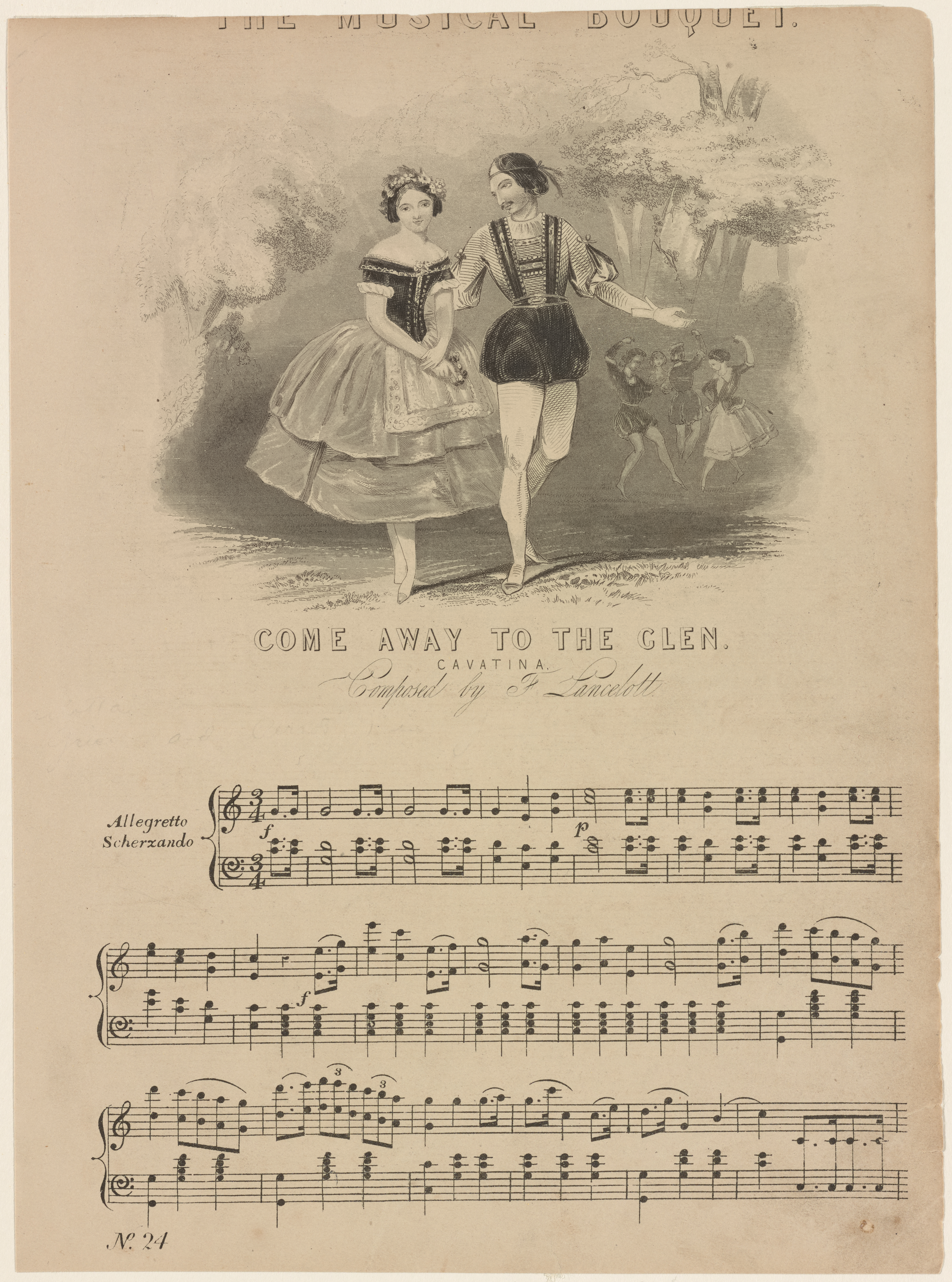 Depicts Grisi and Perrot standing in a wooded area. Two couples dancing in the background.